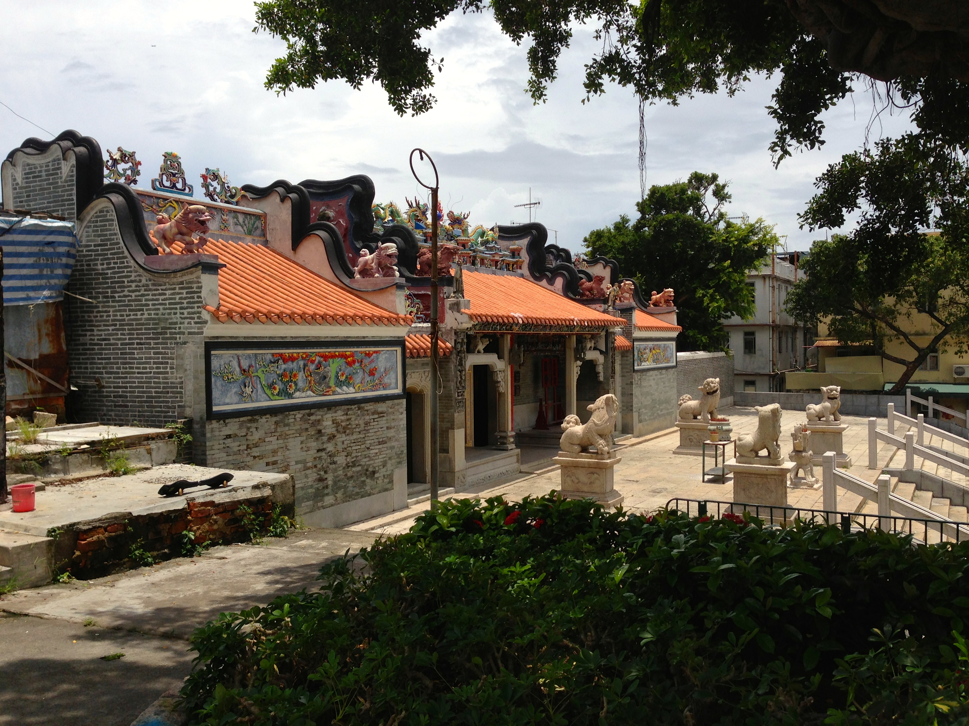 HK Cheung Chau Pak Tei Temple in 2013